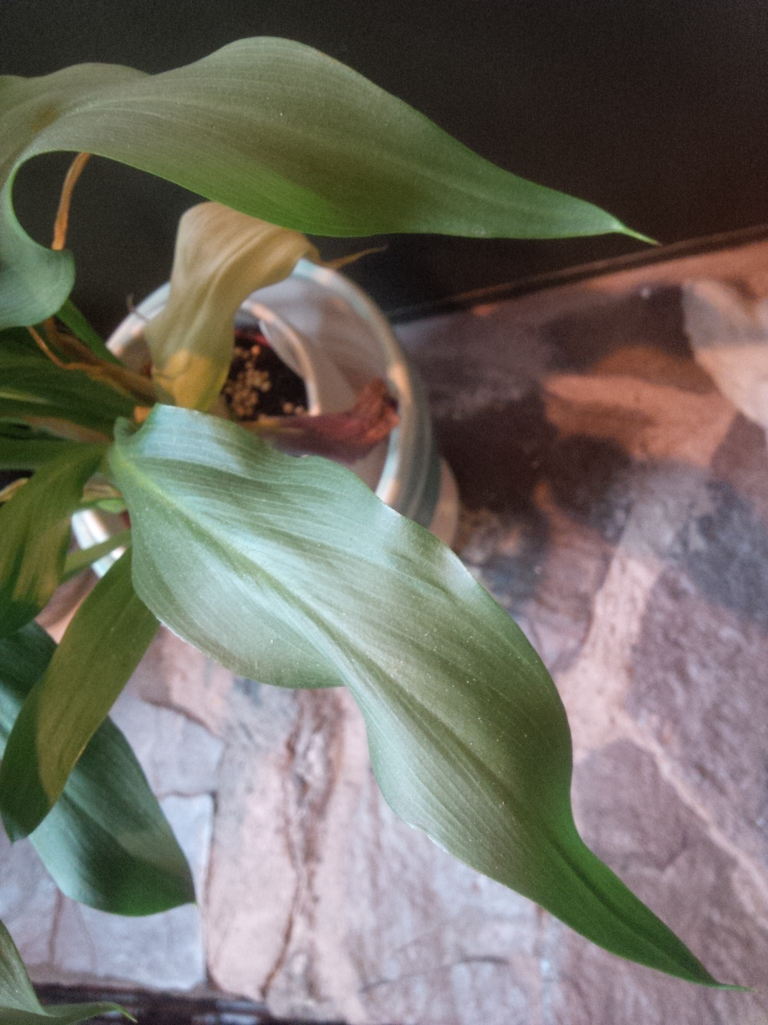 Leaves of Zantedeschia cultivar showing lanceolate shape